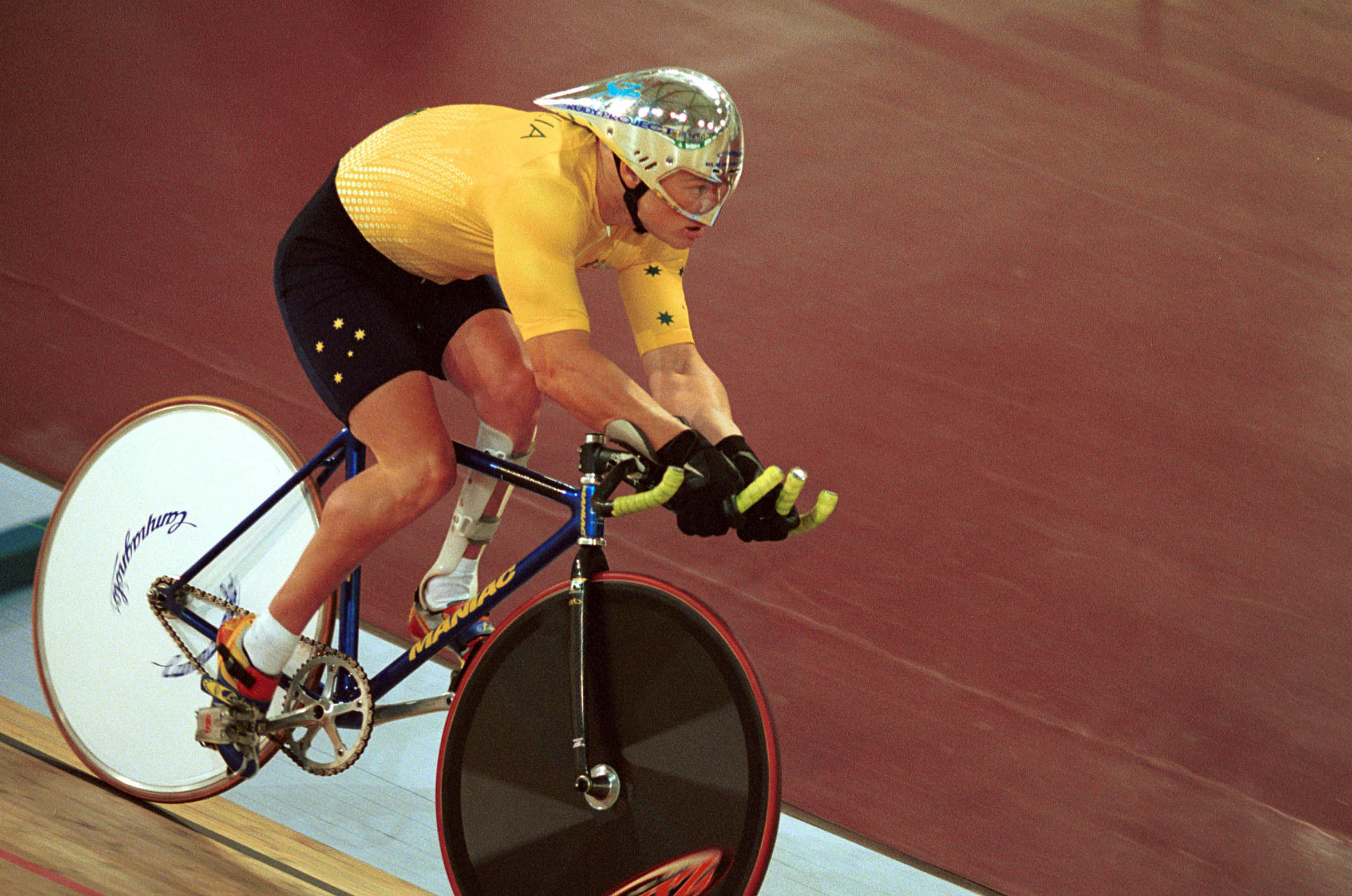 Action shot of Australian track cyclist Greg Ball during 2000 Sydney Paralympic Games race